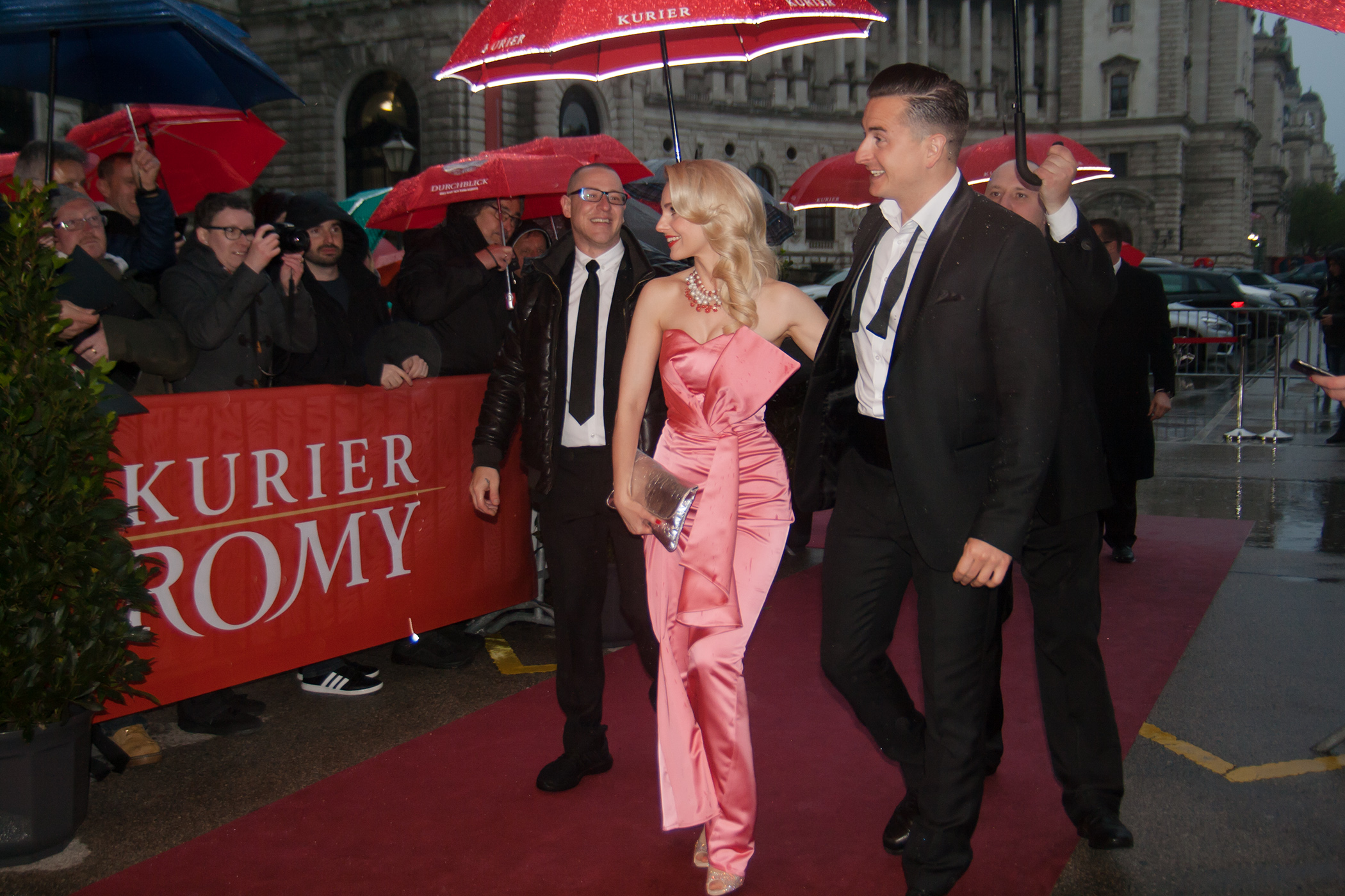 Silvia Schneider and Andreas Gabalier on the red carpet of the Romy TV awards 2017 at Hofburg Palace in Vienna, Austria.